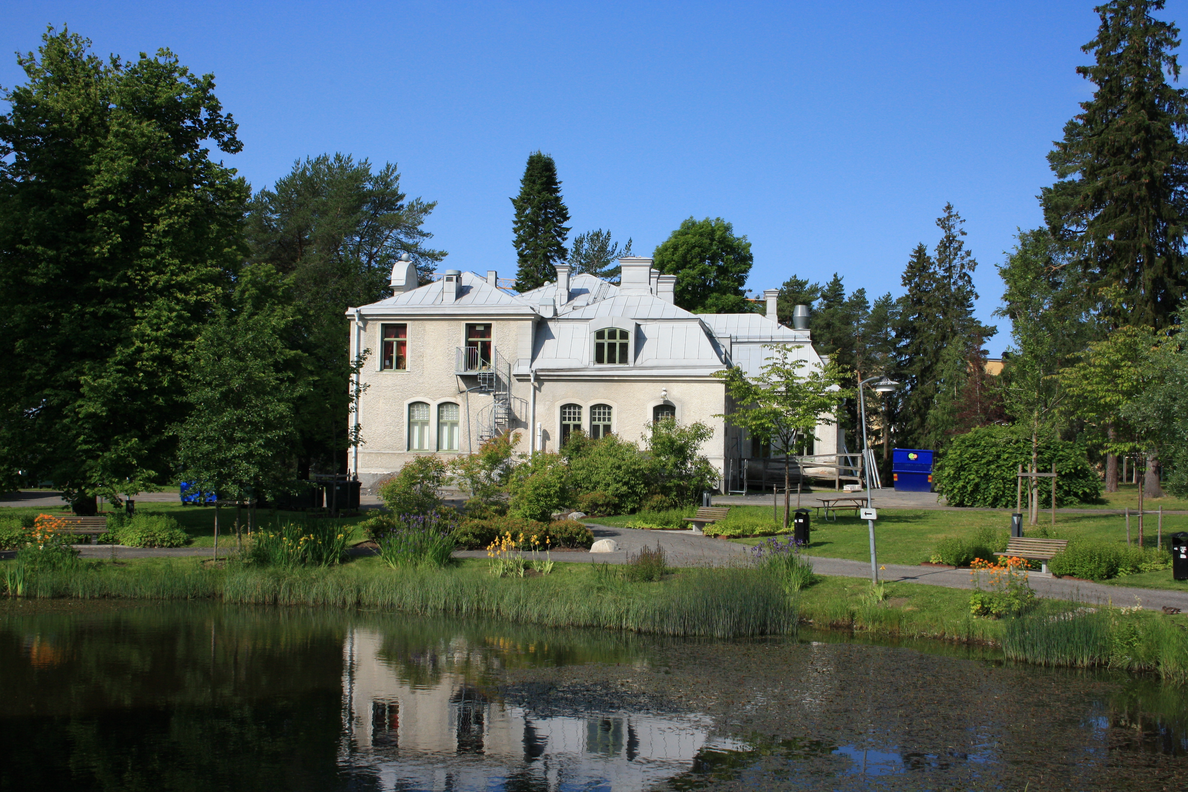 Original the villa for the "Head of hospital". Now the Student Union Building. Placed in the hospital park in Umeå.